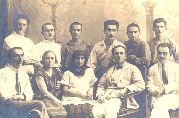 Yusif Vazir Chamanzaminli with his students in Baku